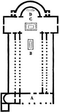 Basilica of Saint John in Lateran, Rome, reconstruction, plan.